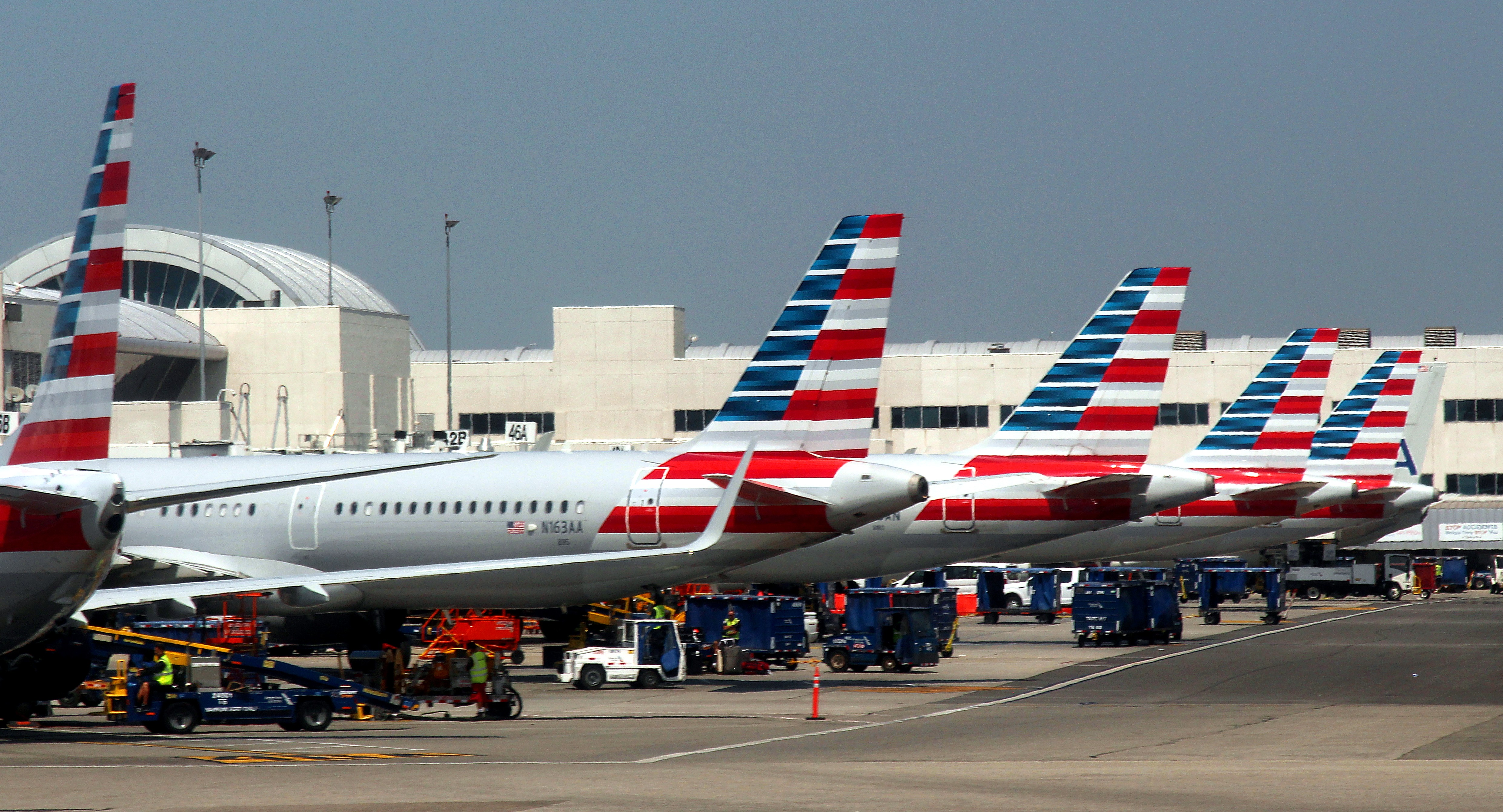 LAX International Airport Los Angeles, California